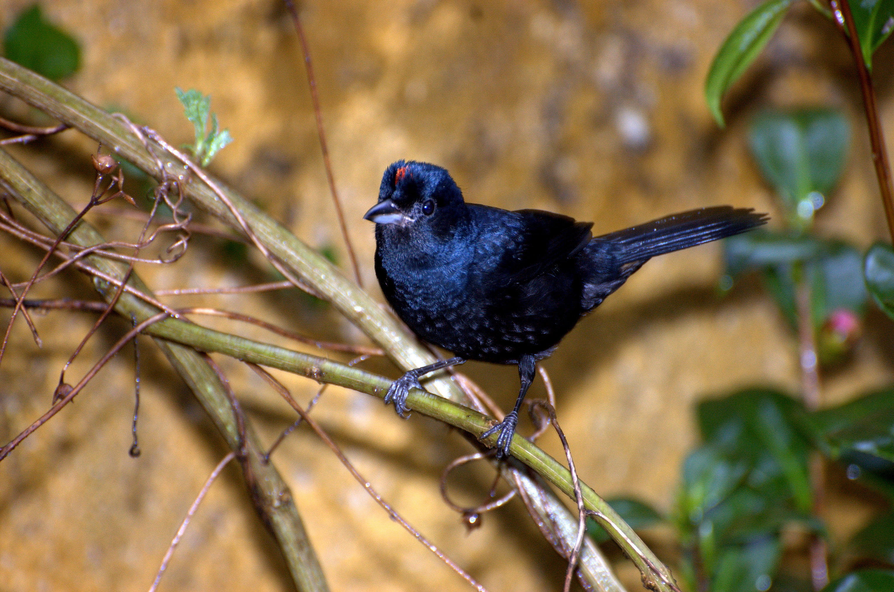 A Ruby-crowned Tanager (Tachyphonus coronatus), male